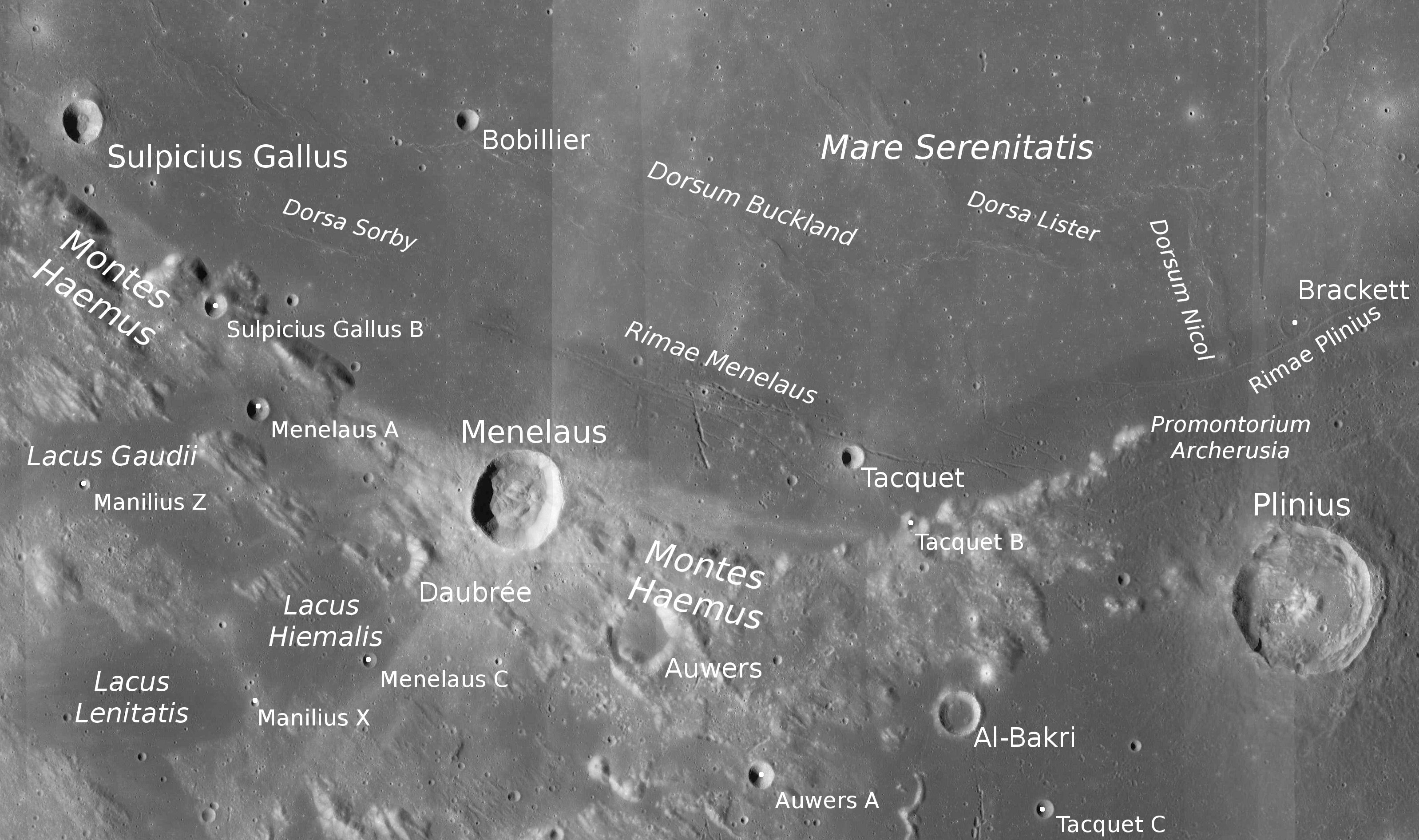 Montes Haemus with craters Sulpicius Gallus, Menalus and Plinius (detail of LROC - WAC global moon mosaic)